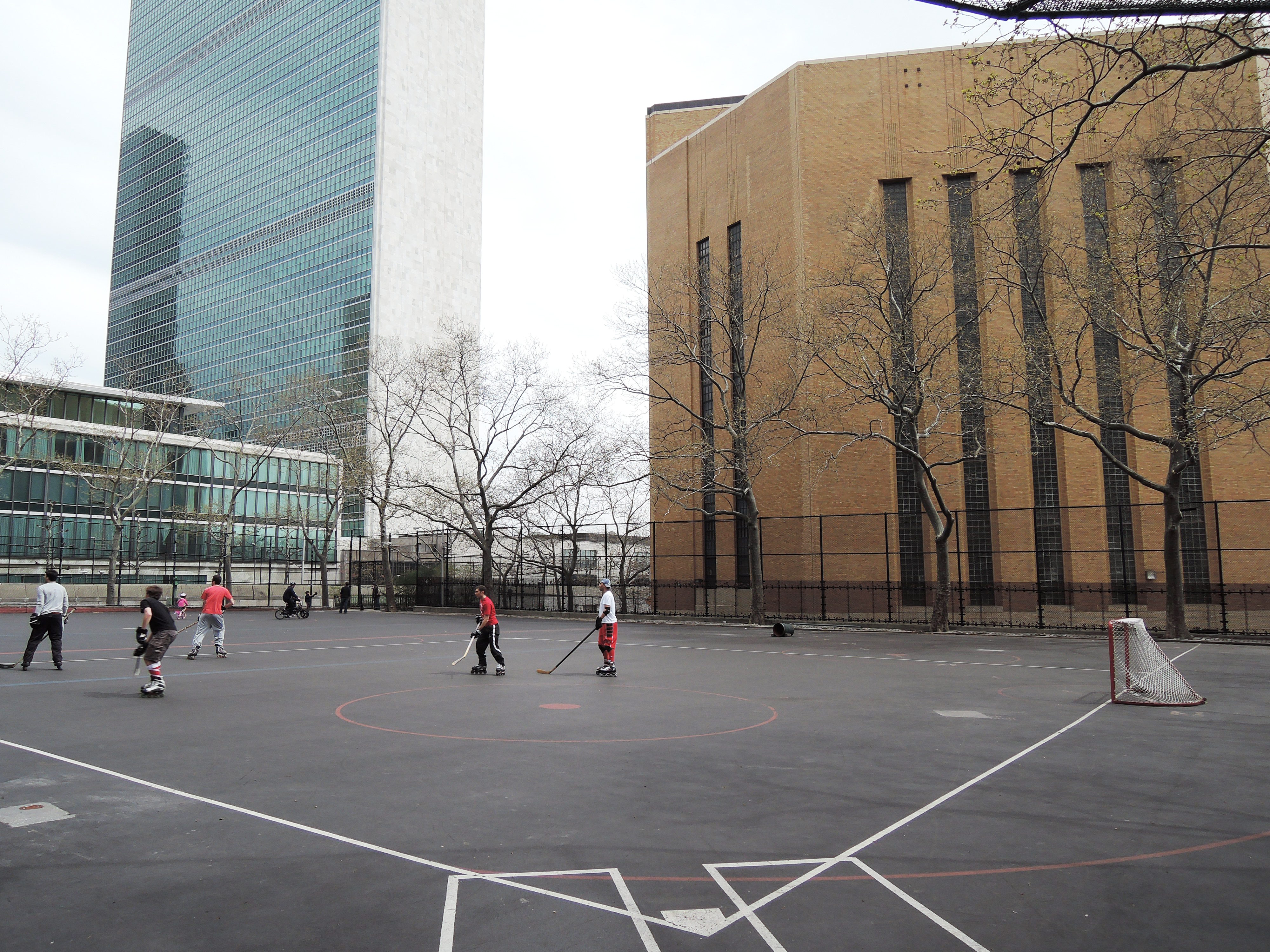 Looking east at playground with roller hockey.